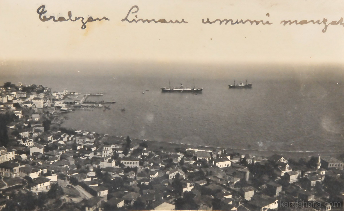 Port of Trabzon, 192'0s